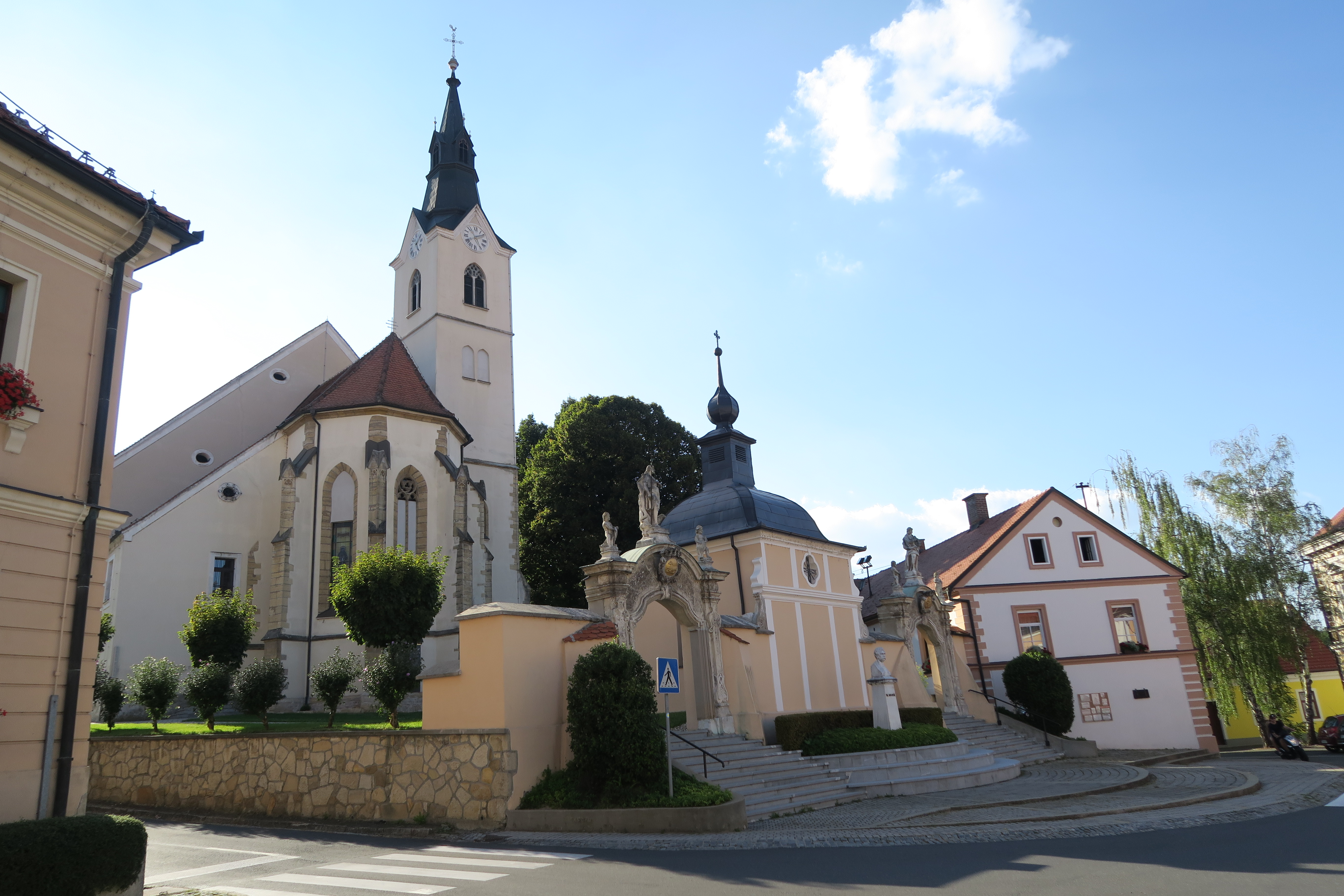 St. John Church Ljutomer